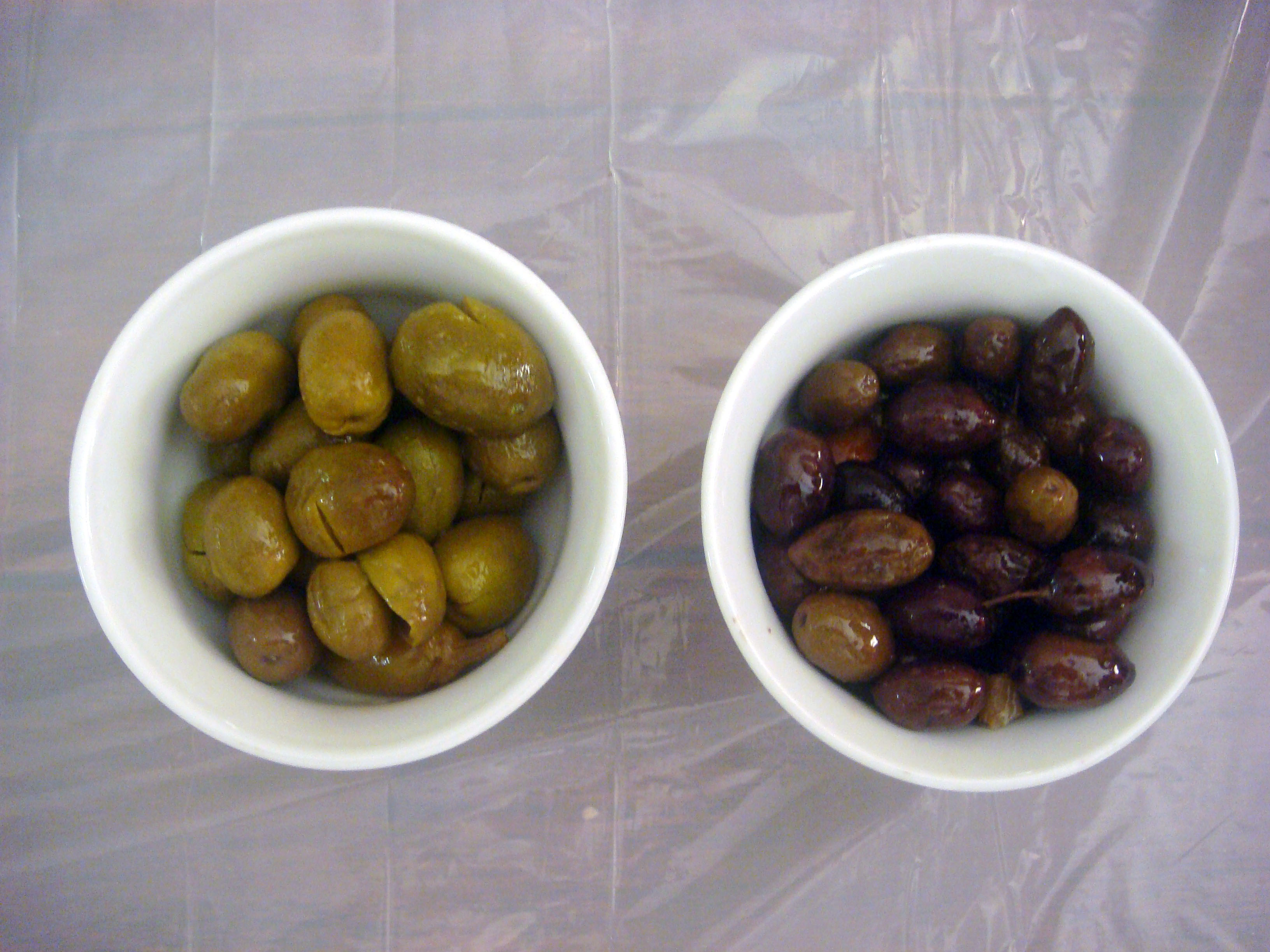 Black & Green Olive